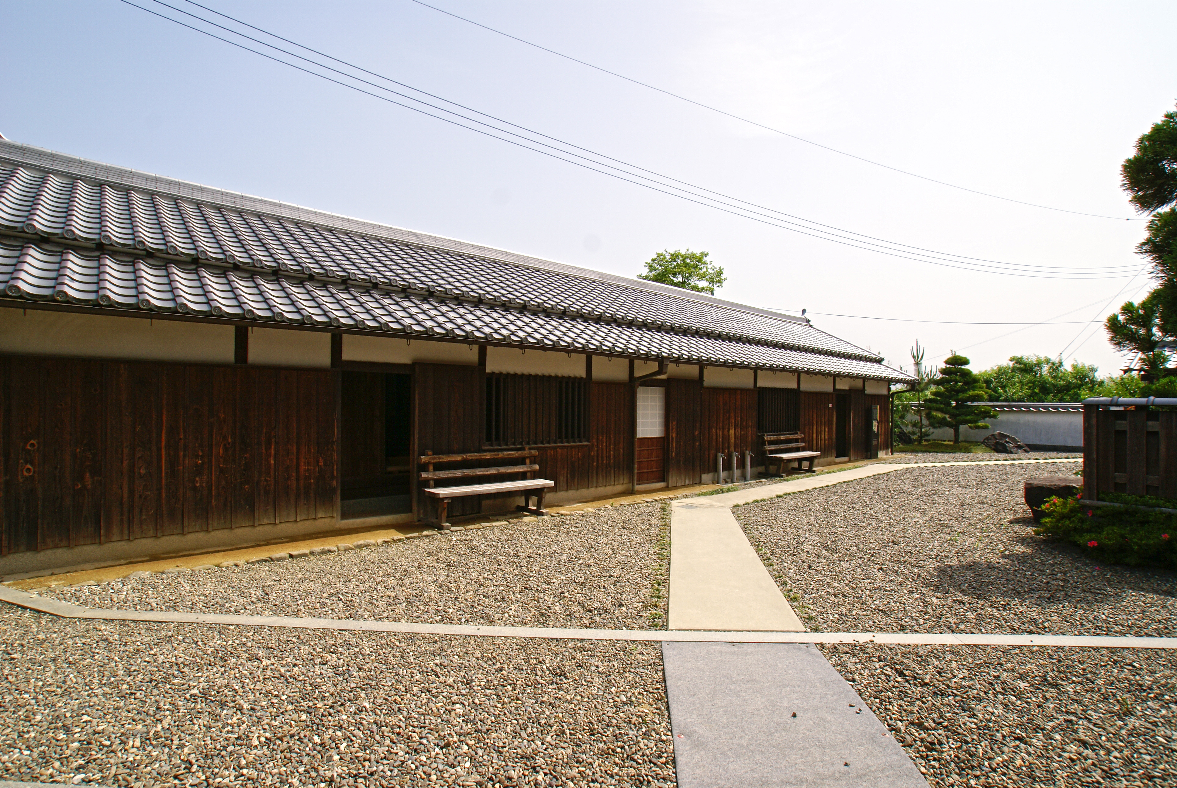 Shunrinken in Kinokawa, Wakayama prefecture, Japan